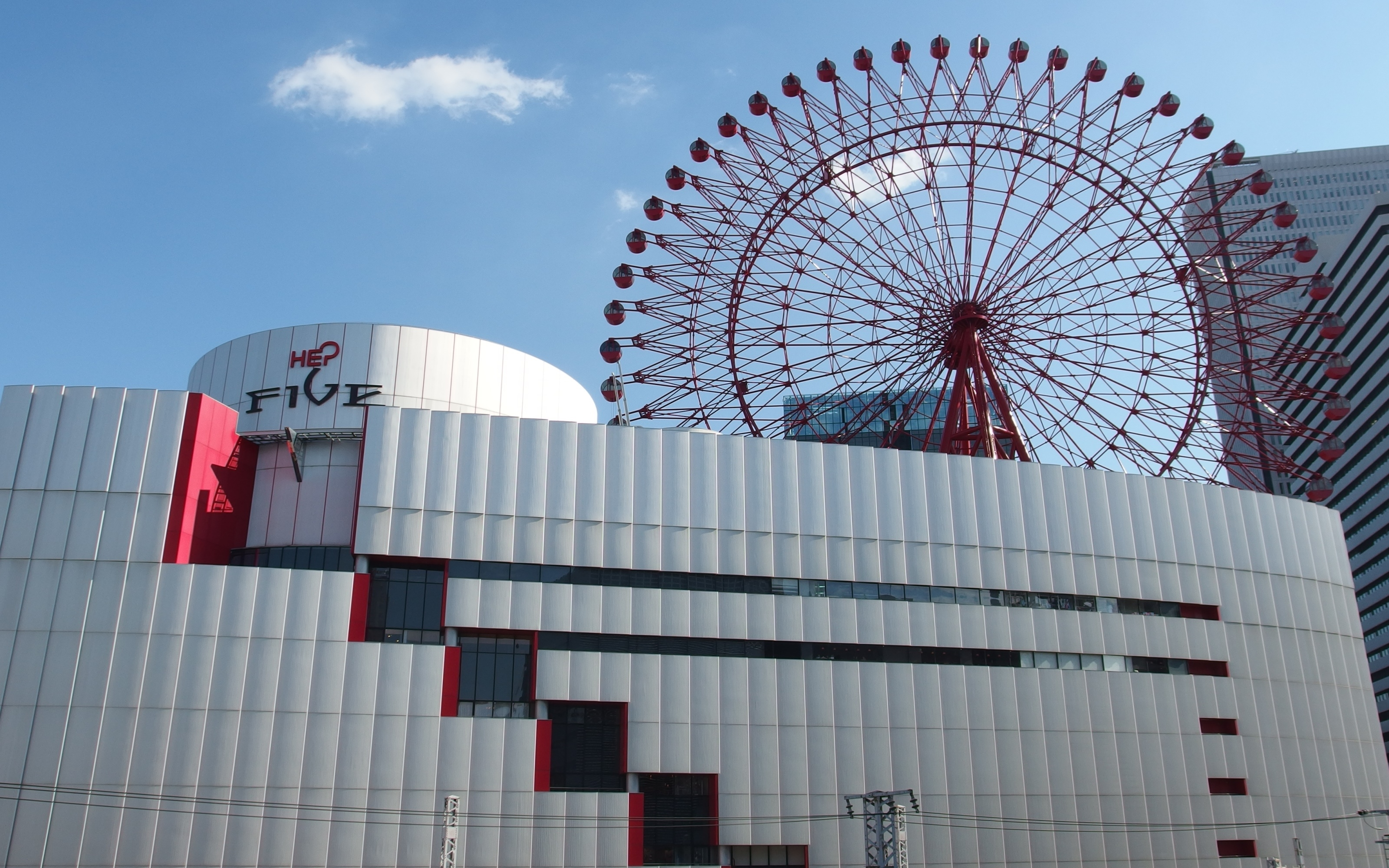 HEP Five, Osaka, Osaka Prefecture, Japan